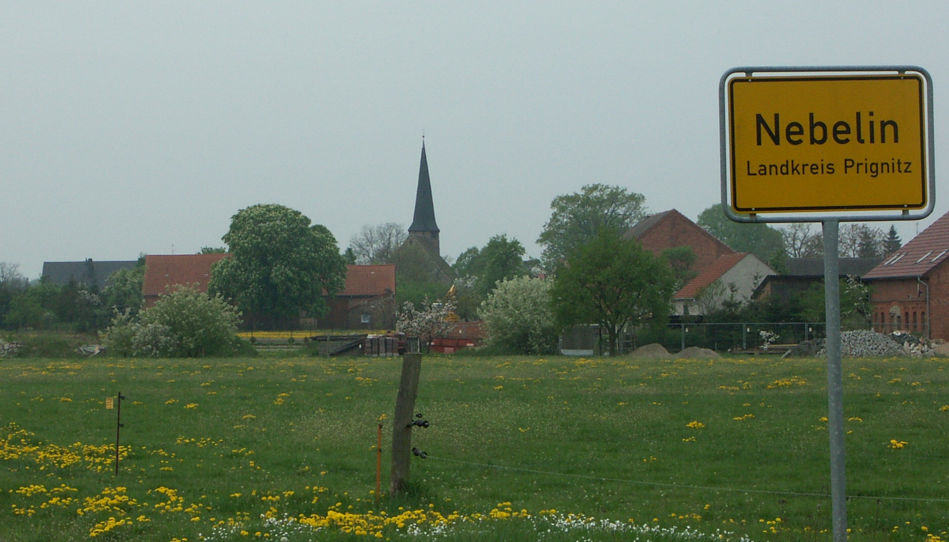 Nebelin, from East